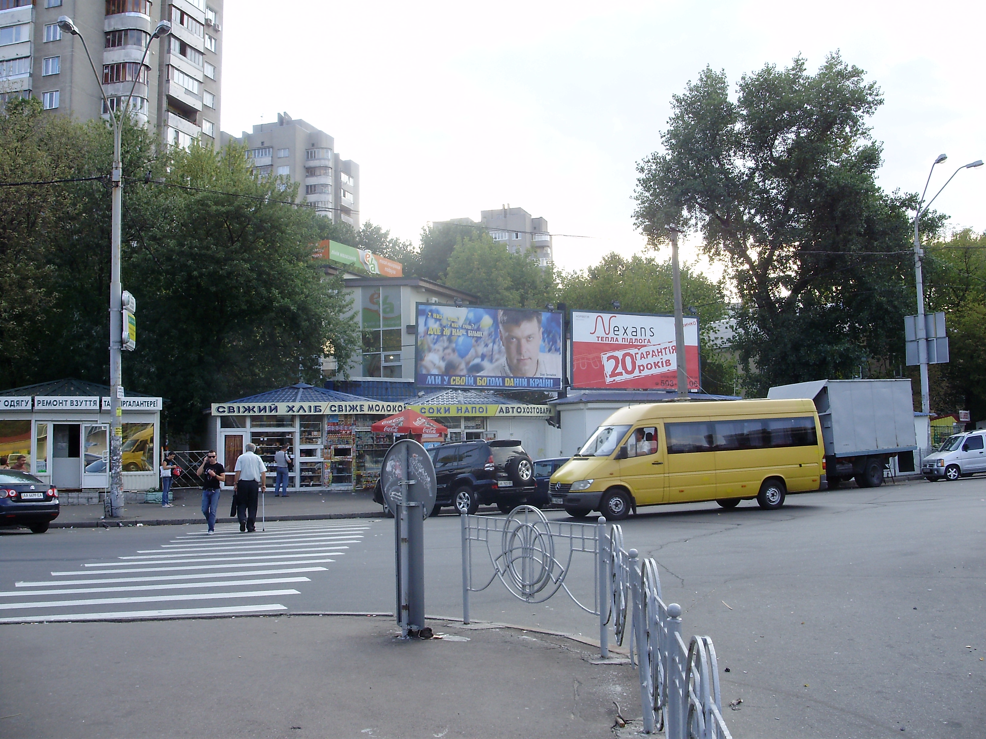 Billboard in support of Oleh Tyahnybok's candidature for the Ukrainian Presidential elections of January 2010 in Kiev (Ukraine).